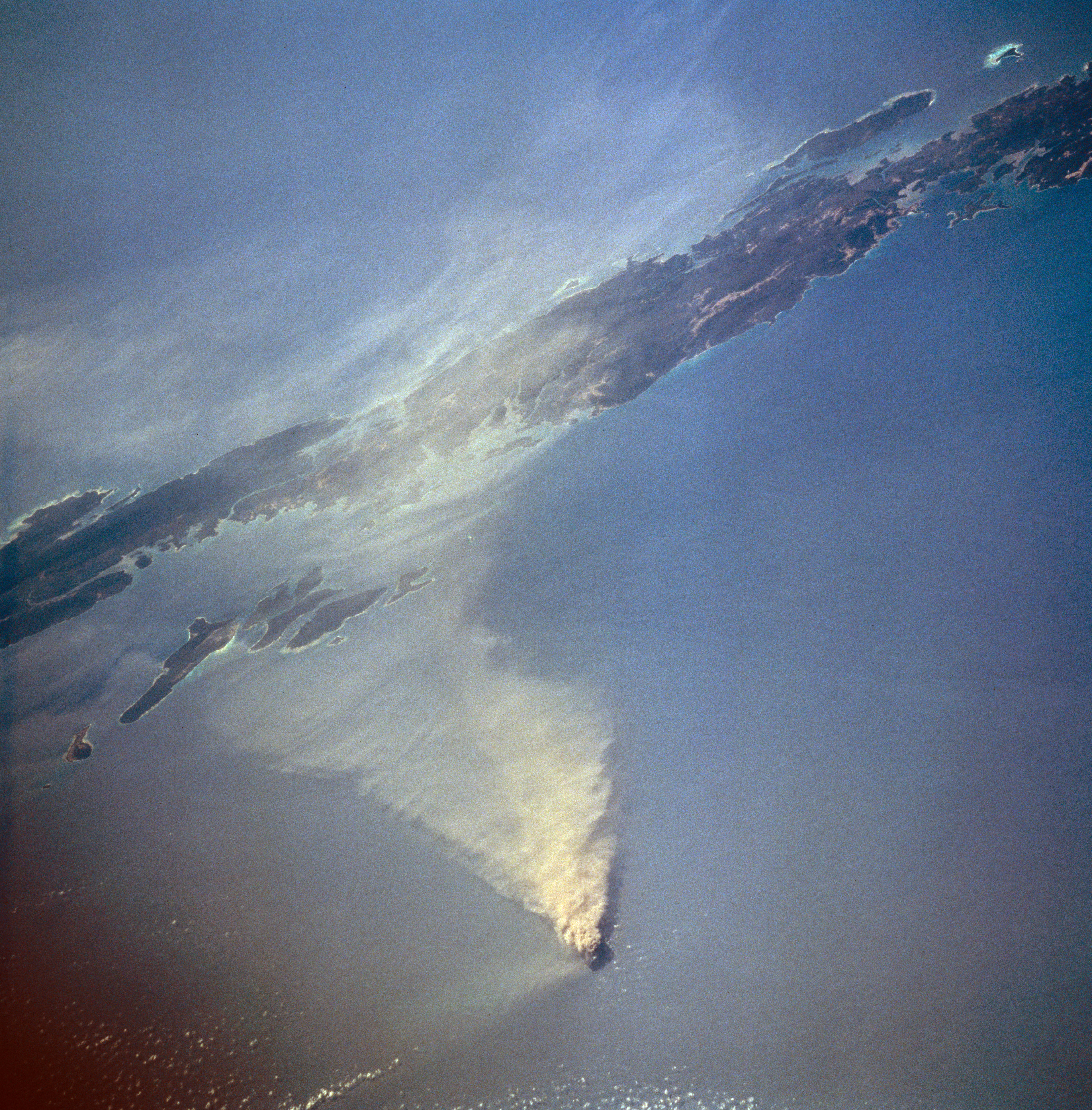 Barren Island, a small volcanic island which is part of the Andaman Island group in the Andaman Sea west of Malayasia, began a new eruptive phase late in 1994. Barren Island last erupted in 1991. The current eruption was surveyed by a team of Indian scientists in January, 1995; at that time they thought the eruption was in an initial stage and gaining momentum. The STS-67 crew noticed the volcanic plume early in their flight, and had several opportunities to document the on-going eruption. This view, taken March 14, shows a healthy volcanic plume rising several thousand feet into the atmosphere. The main plume drifts westward over Andaman Island, although a smaller plume close to the ground is being dispersed to the south.